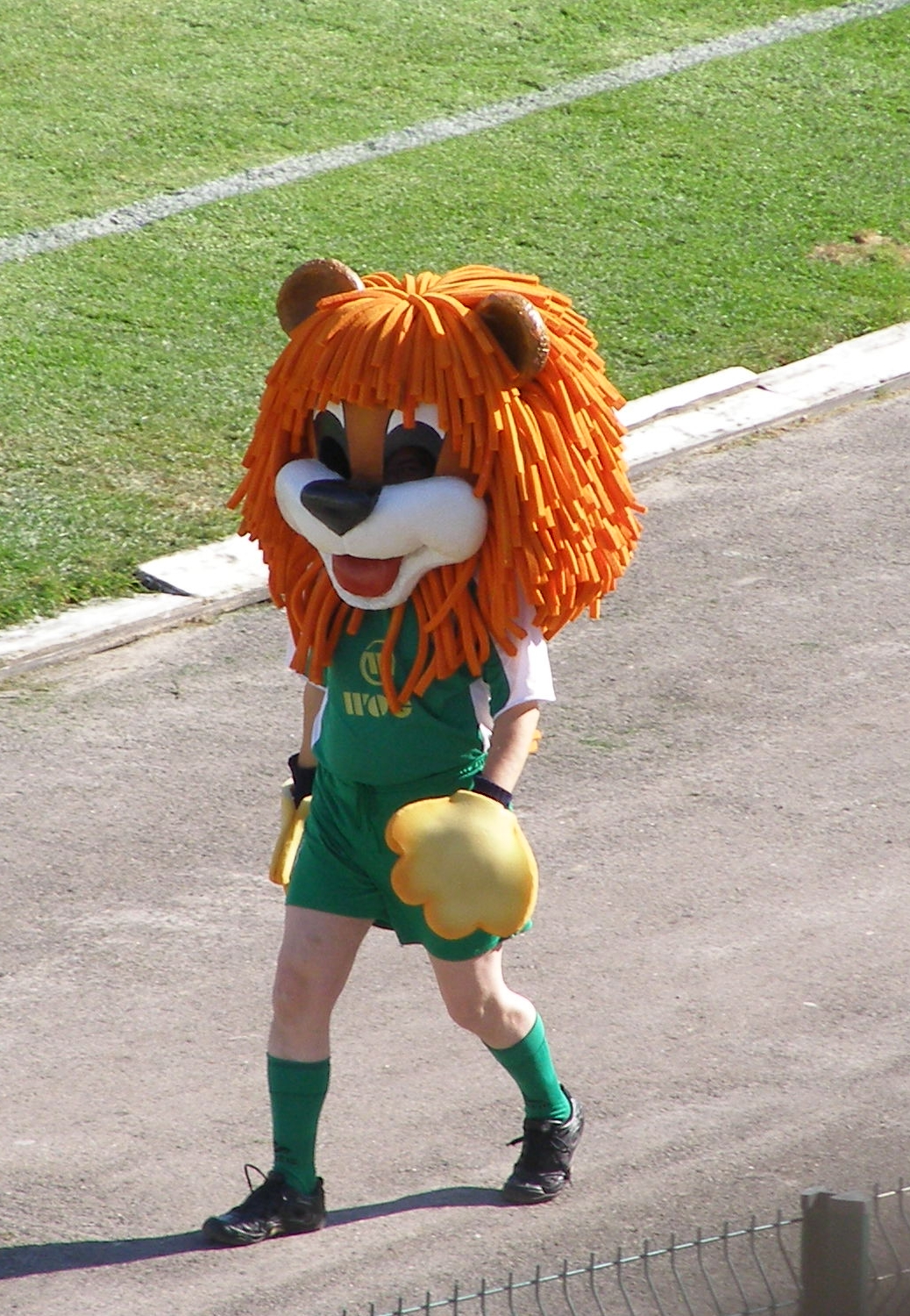 Levchyk ("cub" in Ukrainian) - FC Karpaty Lviv mascot